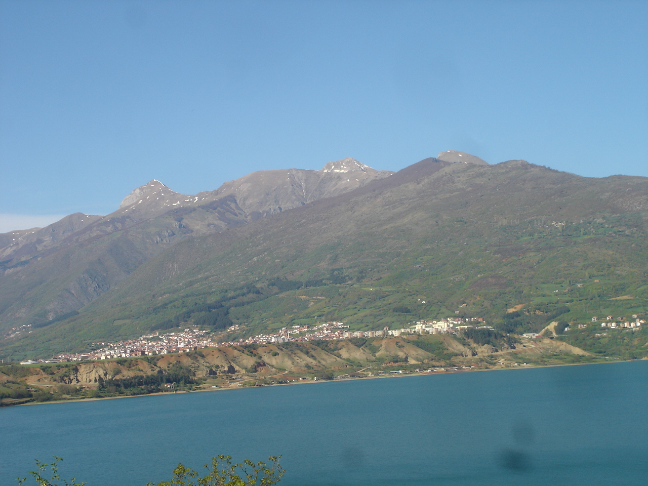 The town of Debar by Debar Lake, Macedonia